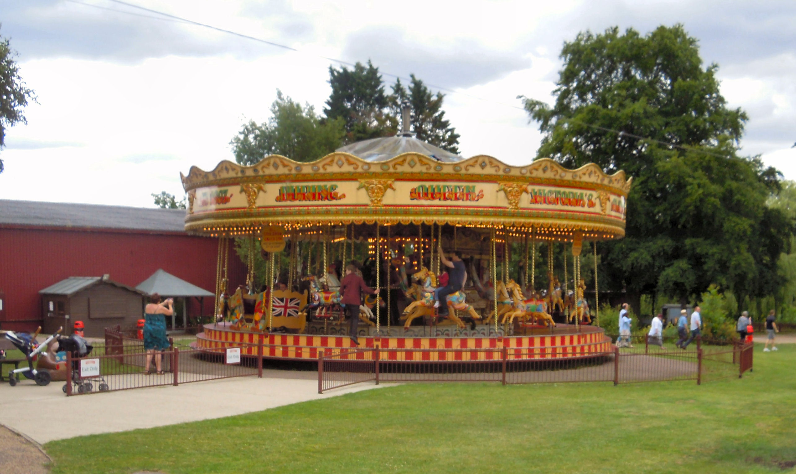 The carousel in the gardens at Bressingham Steam and Gardens